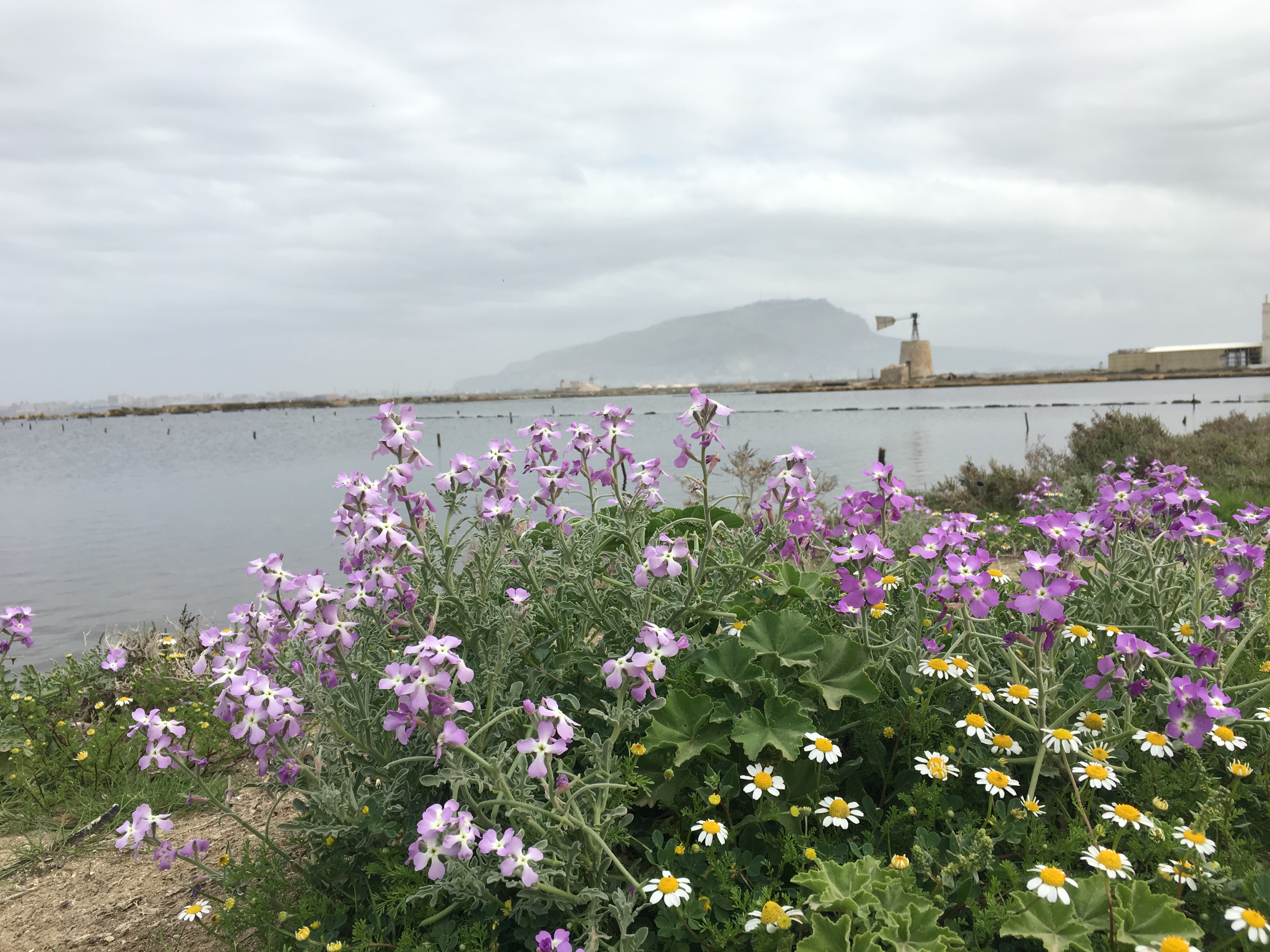 Matthiola tricuspidata habitat